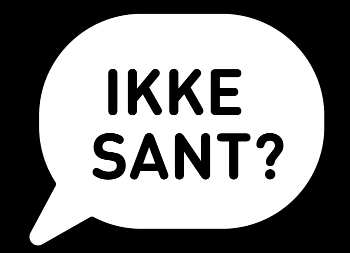 Et retorisk spørsmål er et spørsmål som stilles hvor svaret på forhånd er gitt eller hvor man ikke forventer, eller hvor det foreligger, et konkret svar. Retoriske spørsmål retter seg ofte mot følelser.